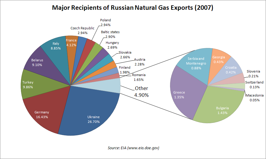 Major recipients of Russian natural gas exports (Data source: [1])